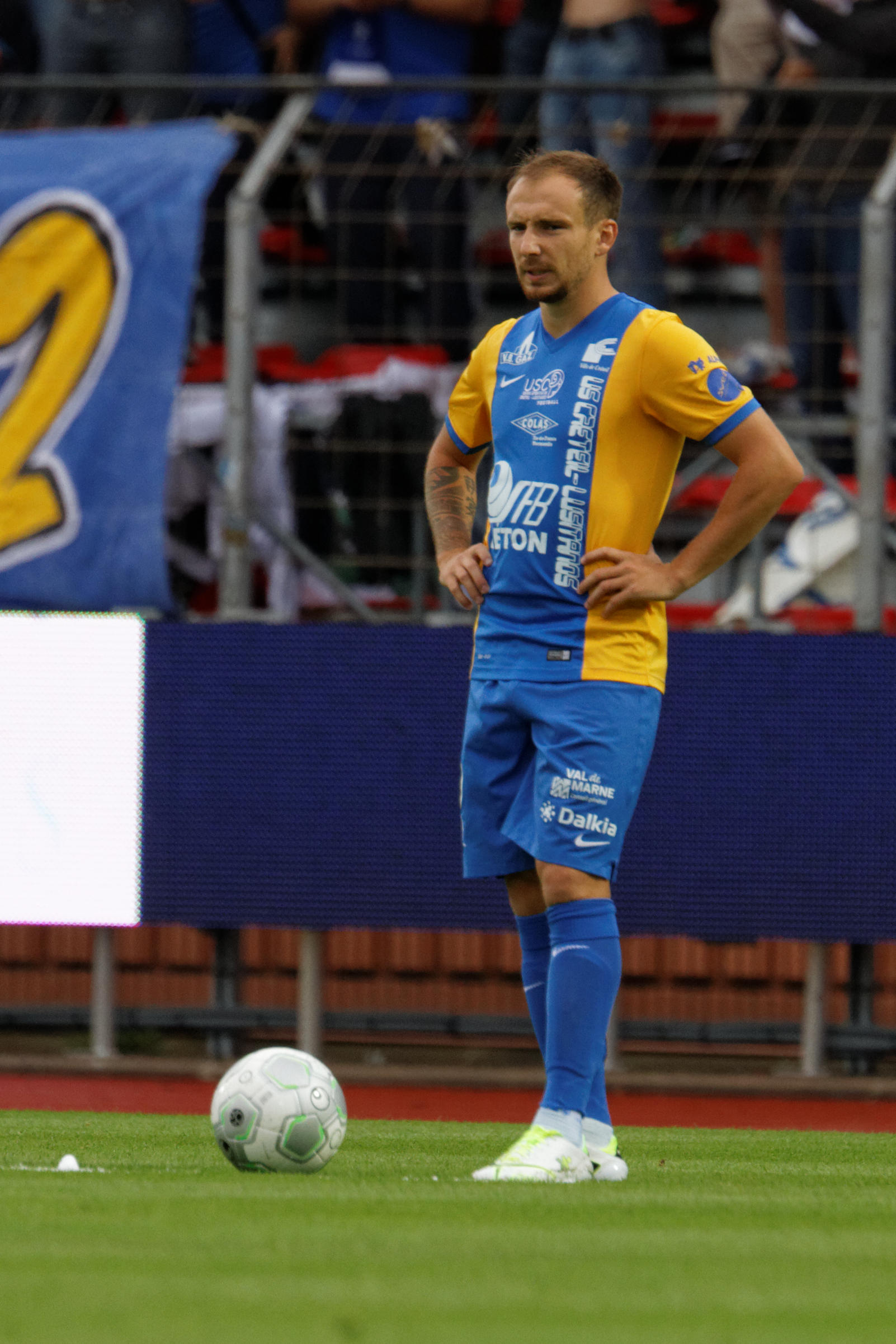 Créteil vs Châteauroux, 8th August 2014.